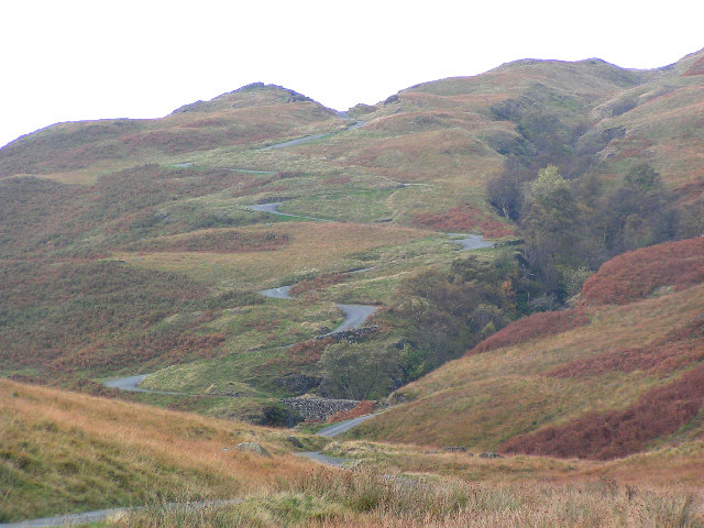 Hard Knott Pass. The pass on the minor road between Ravenglass and Ambleside in the Lake District.